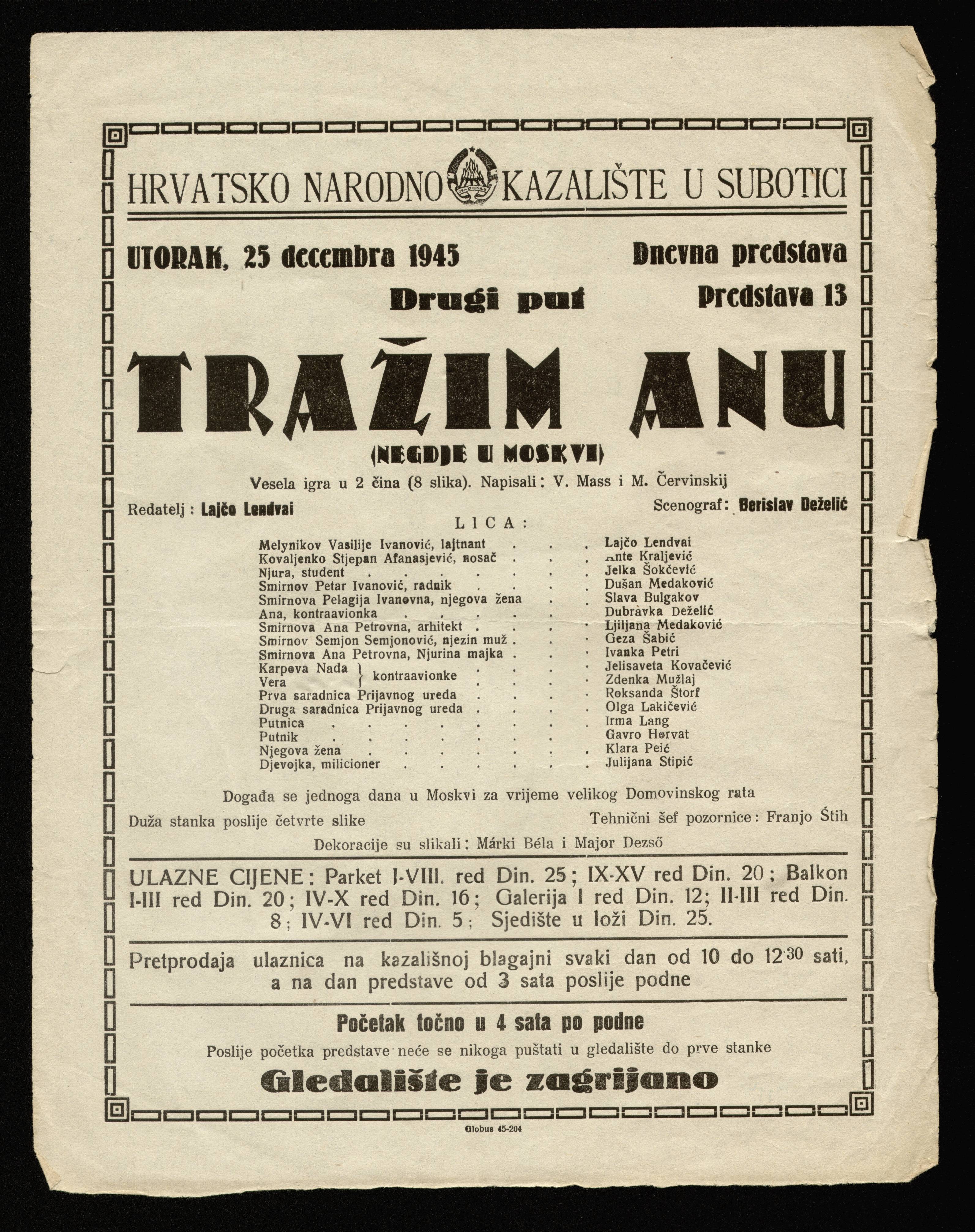 Poster for performance: I'm looking for Anne in Subotica, 25th December 1945 Srpski (latinica): Plakat za predstavu: Trazim Anu, 25. decembra 1945, Subotica Српски (ћирилица): Плакат за представу: Тражим Ану, 25. децембра 1945, Суботица